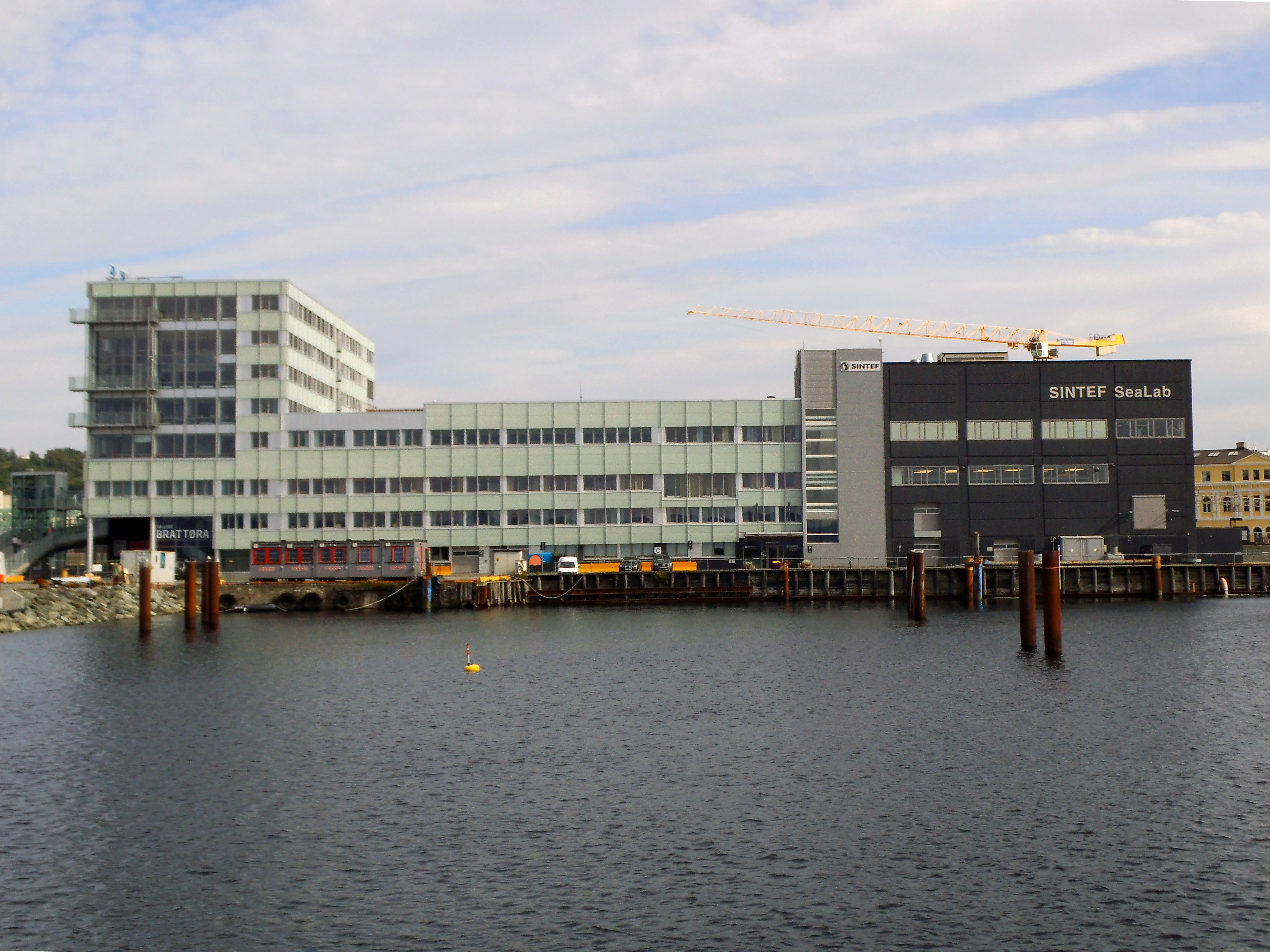 Laboratory facilities for aquaculture industry, owned by Sintef in Trondheim. It's used for surveillance, simulation and operation.